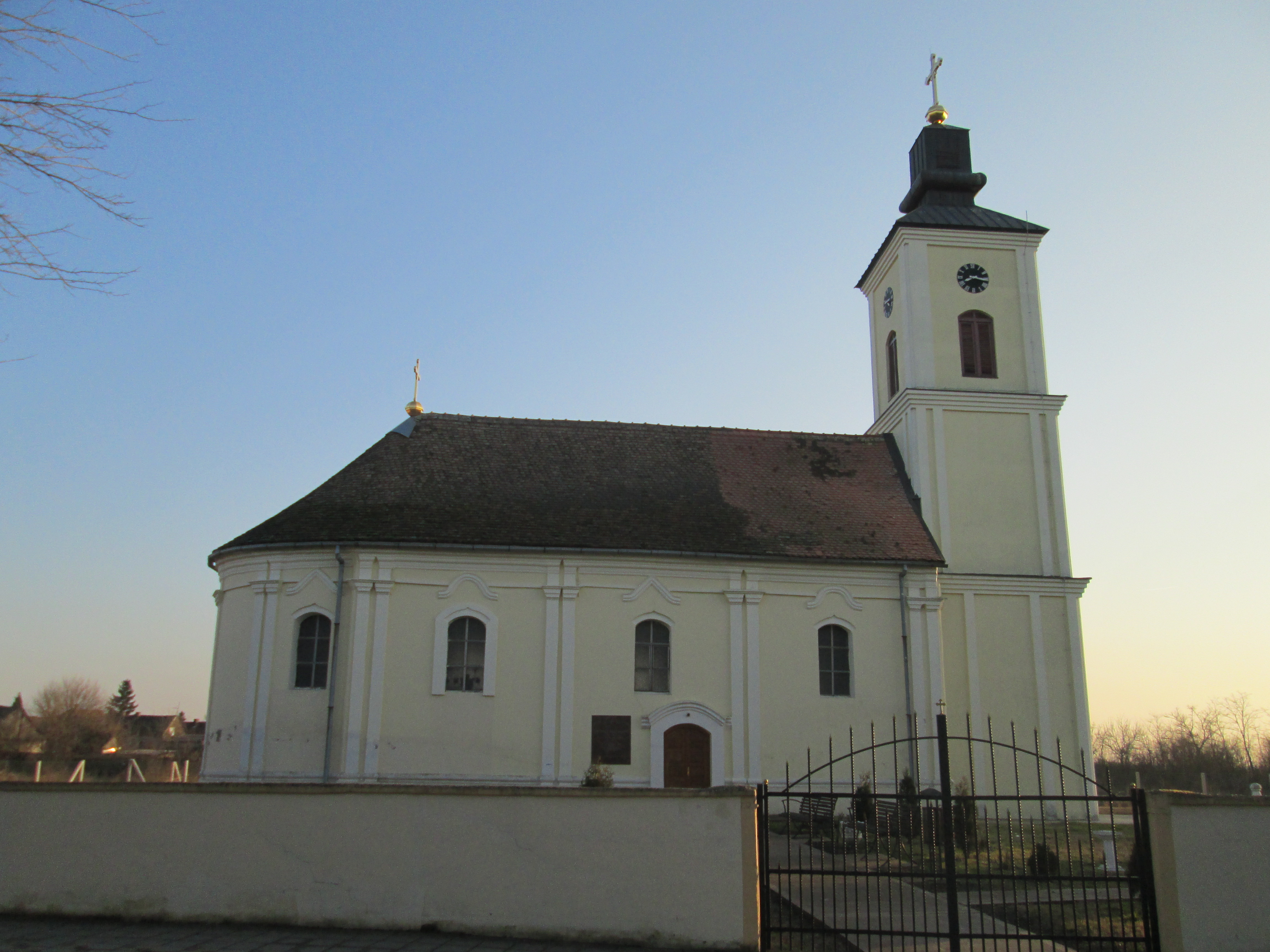 Holy Johan the Baptist Church, Subotište Српски (ћирилица): Црква Св. Јована Крститеља, Суботиште